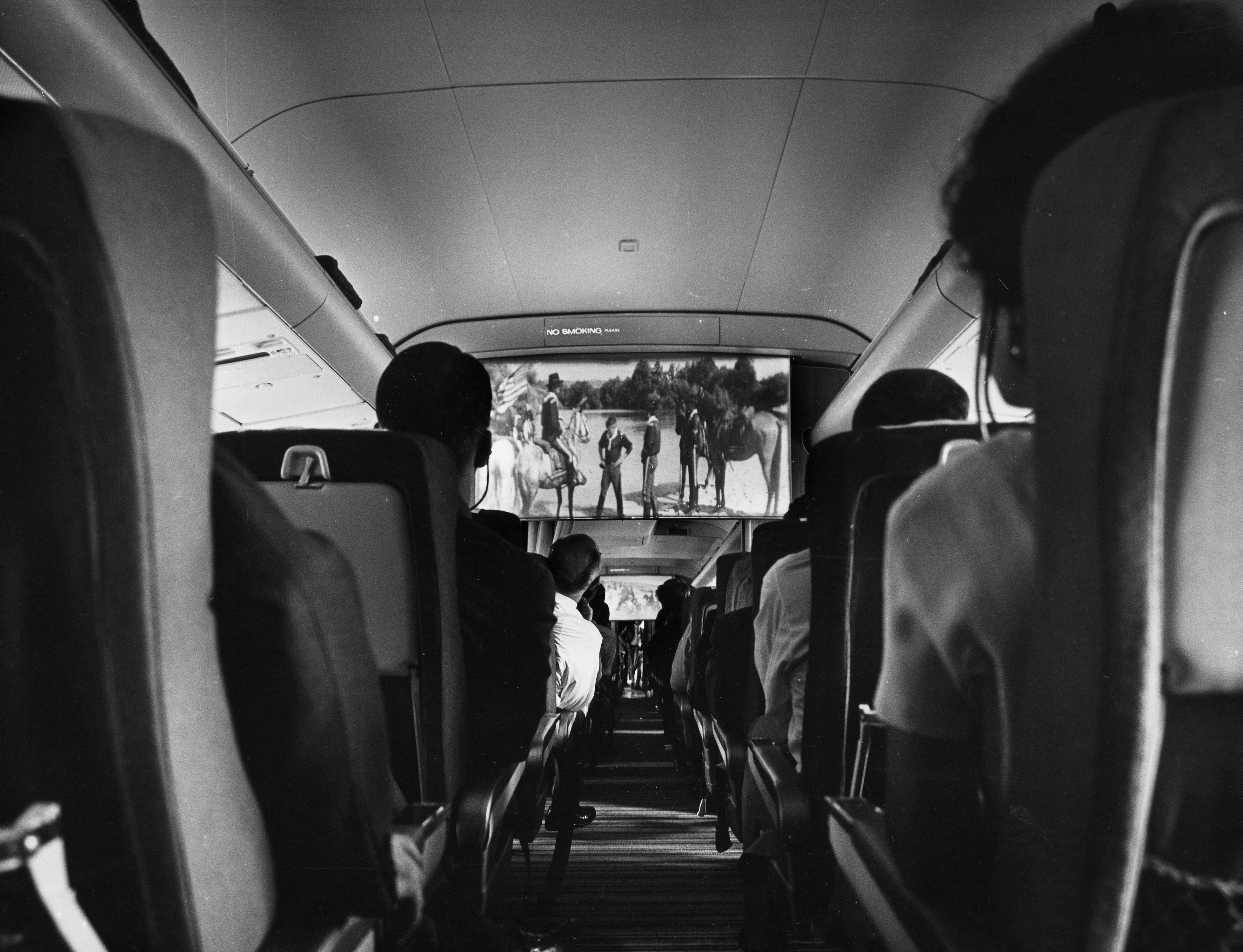 SAS DC-8-63. Passengers in the cabin's three compartments which each have their separate screen and independently-operated projection unit so that showings can be spaced to dovetail wlth meal service. Services on Board, in flight entertaiment.